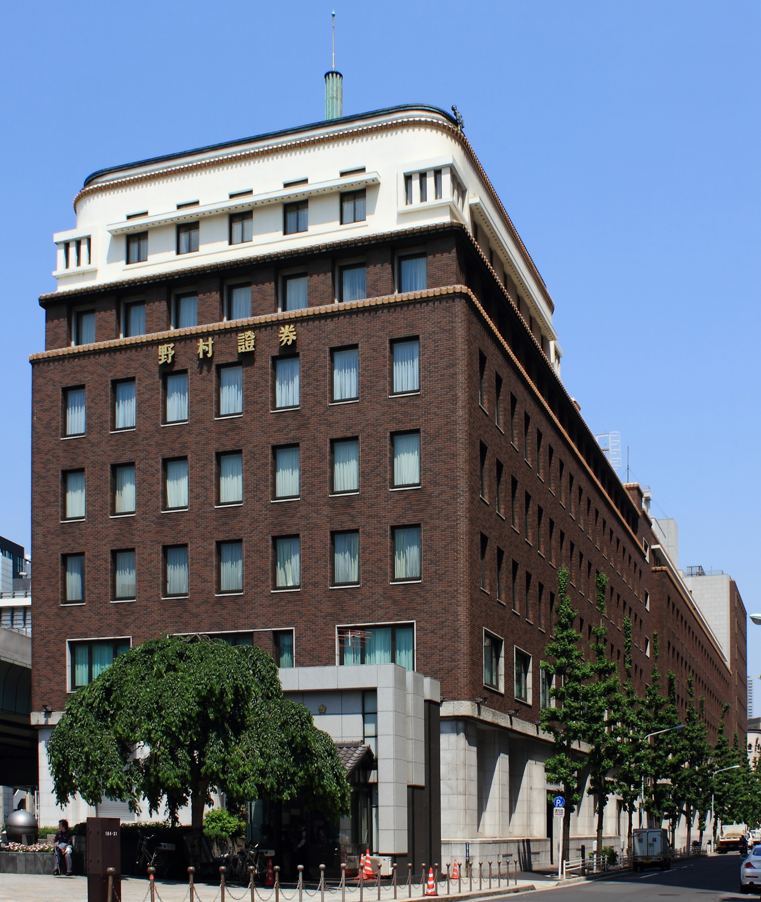 Nihonbashi Nomura Building, home for Nomura Holdings and Nomura Securities, in Chuo Ward, Tokyo, Japan